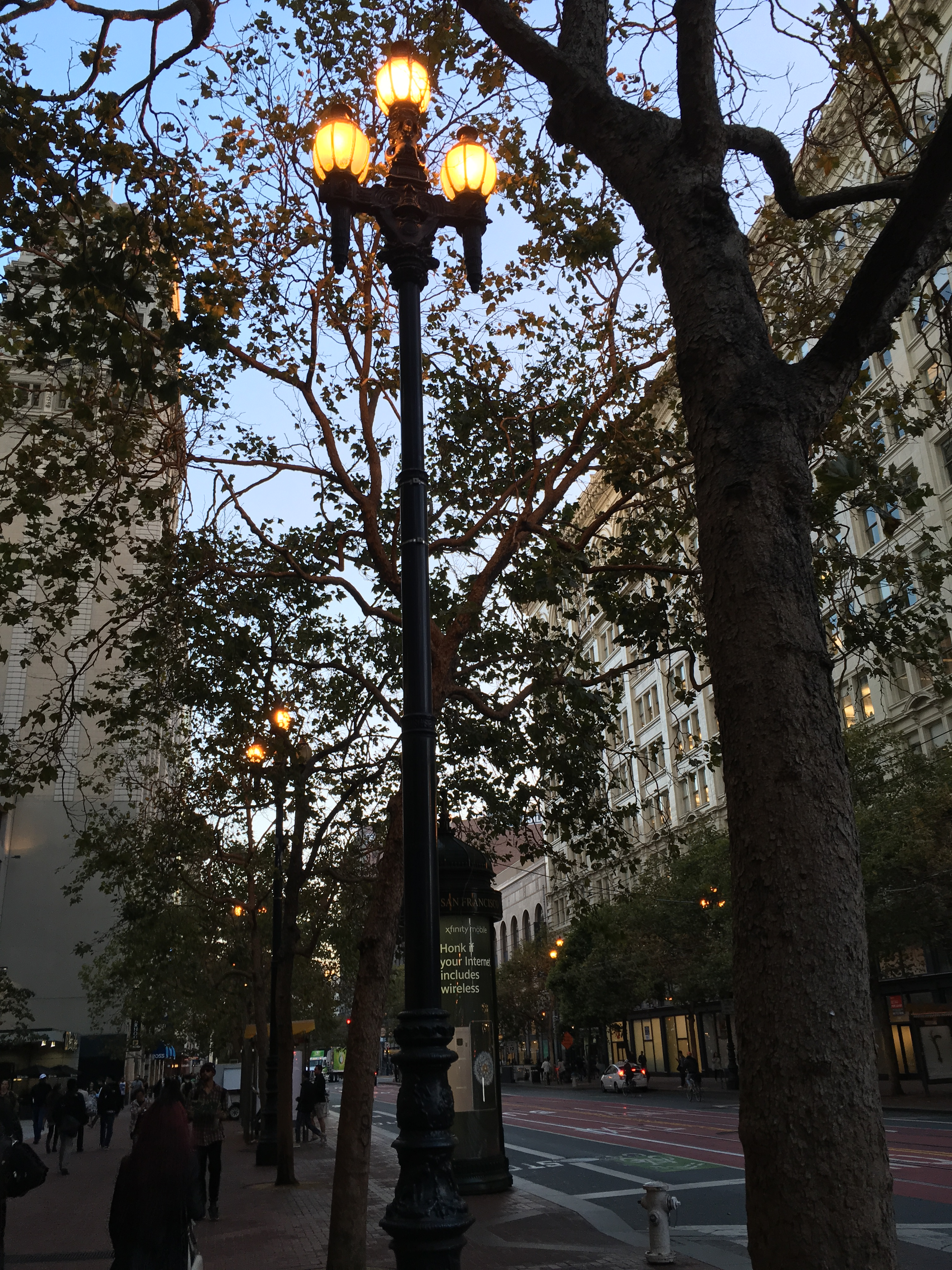 The sky still holds the light, while the sidewalk and its busy walkers are in shadow.